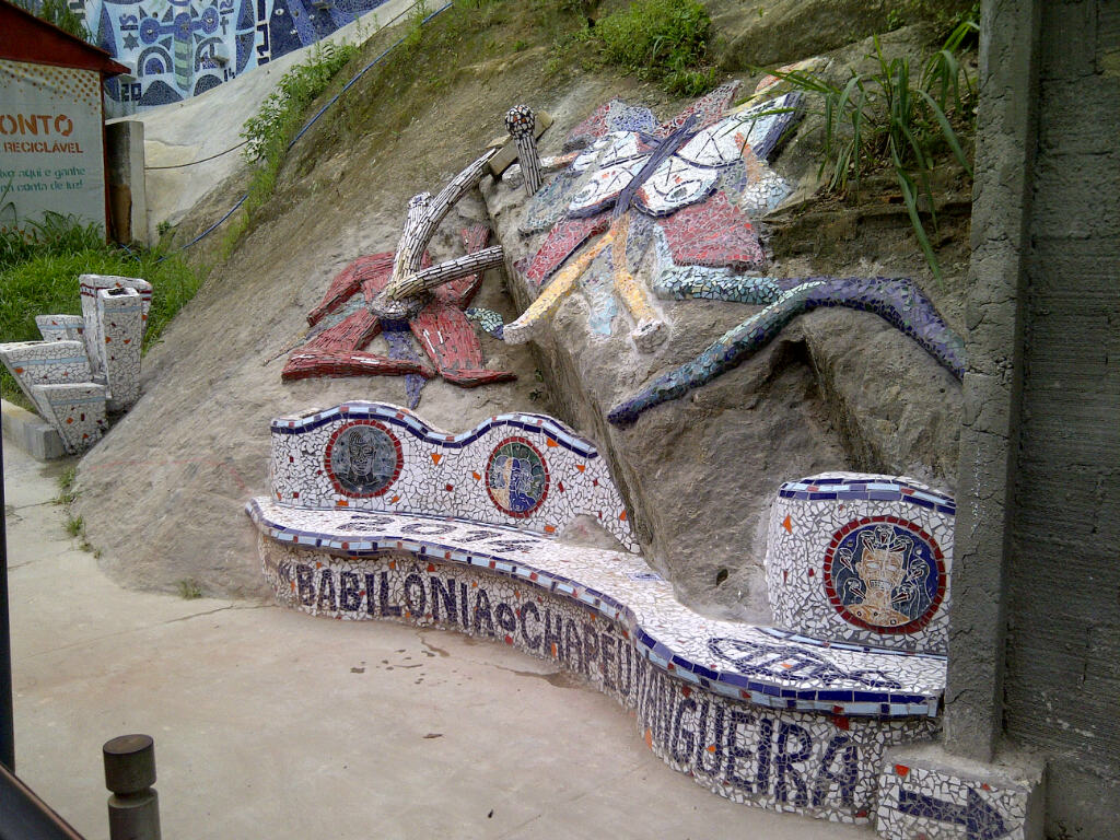 In late 2014 Plebe and X-Dog came from Prague for their second intervention on Mural Babilonia. This beautifully crafted mosaic bench.